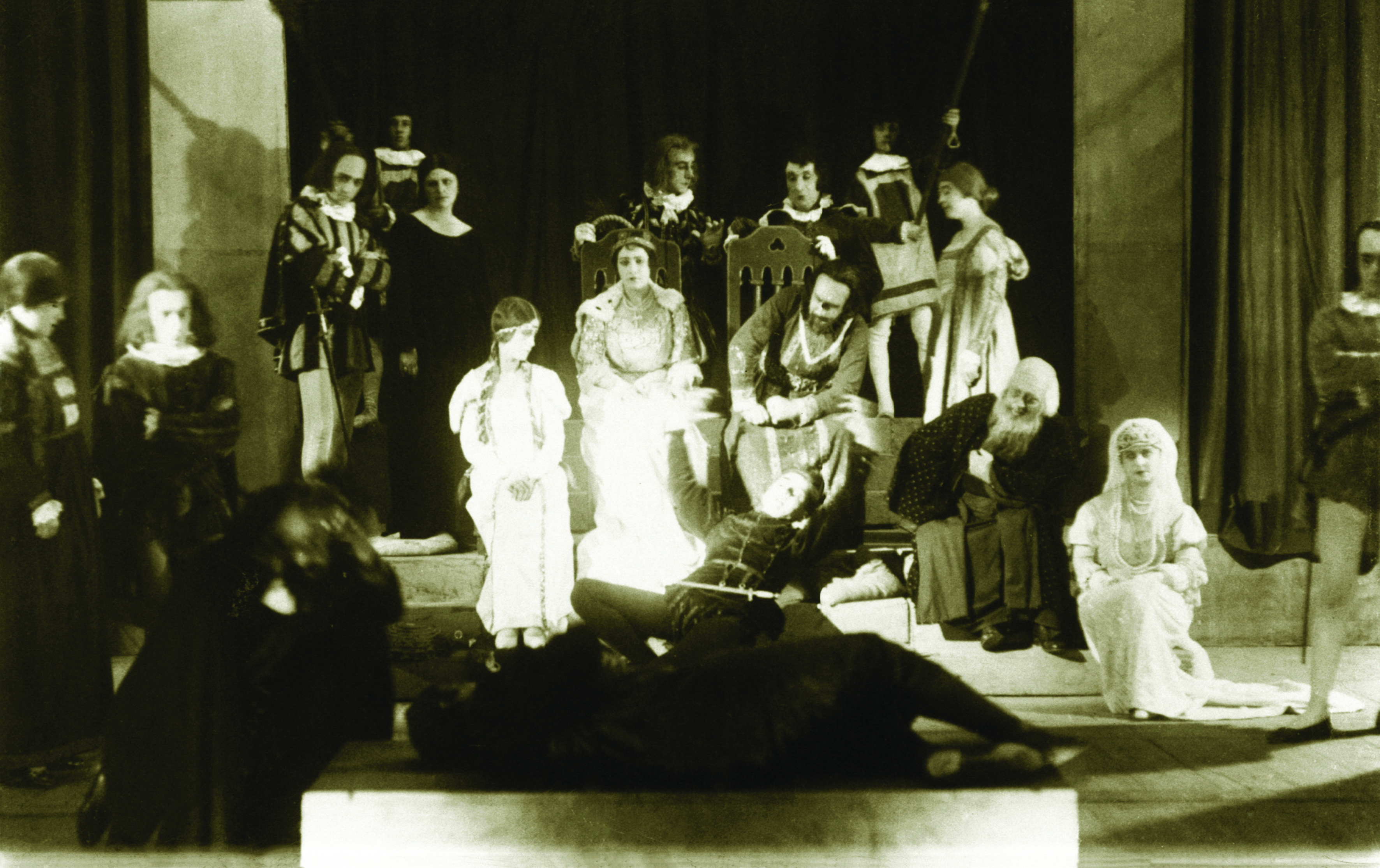 "The Mousetrap" in Hamlet by William Shakespeare, Serbian National Theatre, Novi Sad, 1927 Srpski (latinica): Scena "Mišolovke" iz Hamleta, Vilijama Šekspira, Srpsko narodno pozorište, Novi Sad, 1927. Српски (ћирилица): Сцена "Мишоловке" из Хамлета, Вилијама Шекспира, Српско народно позориште, Нови Сад, 1927.